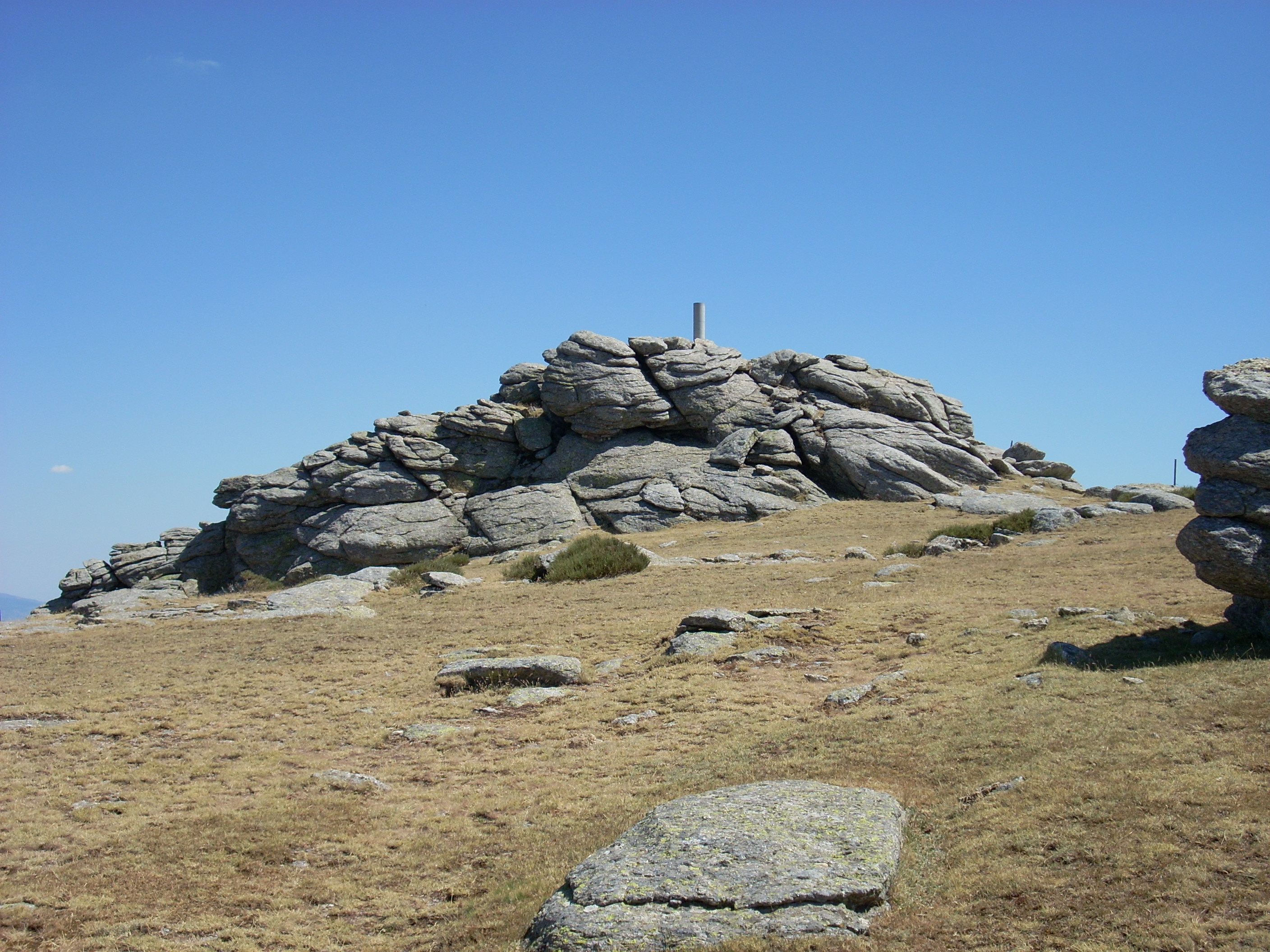 Top of La Najarra, Sierra de Guadarrama